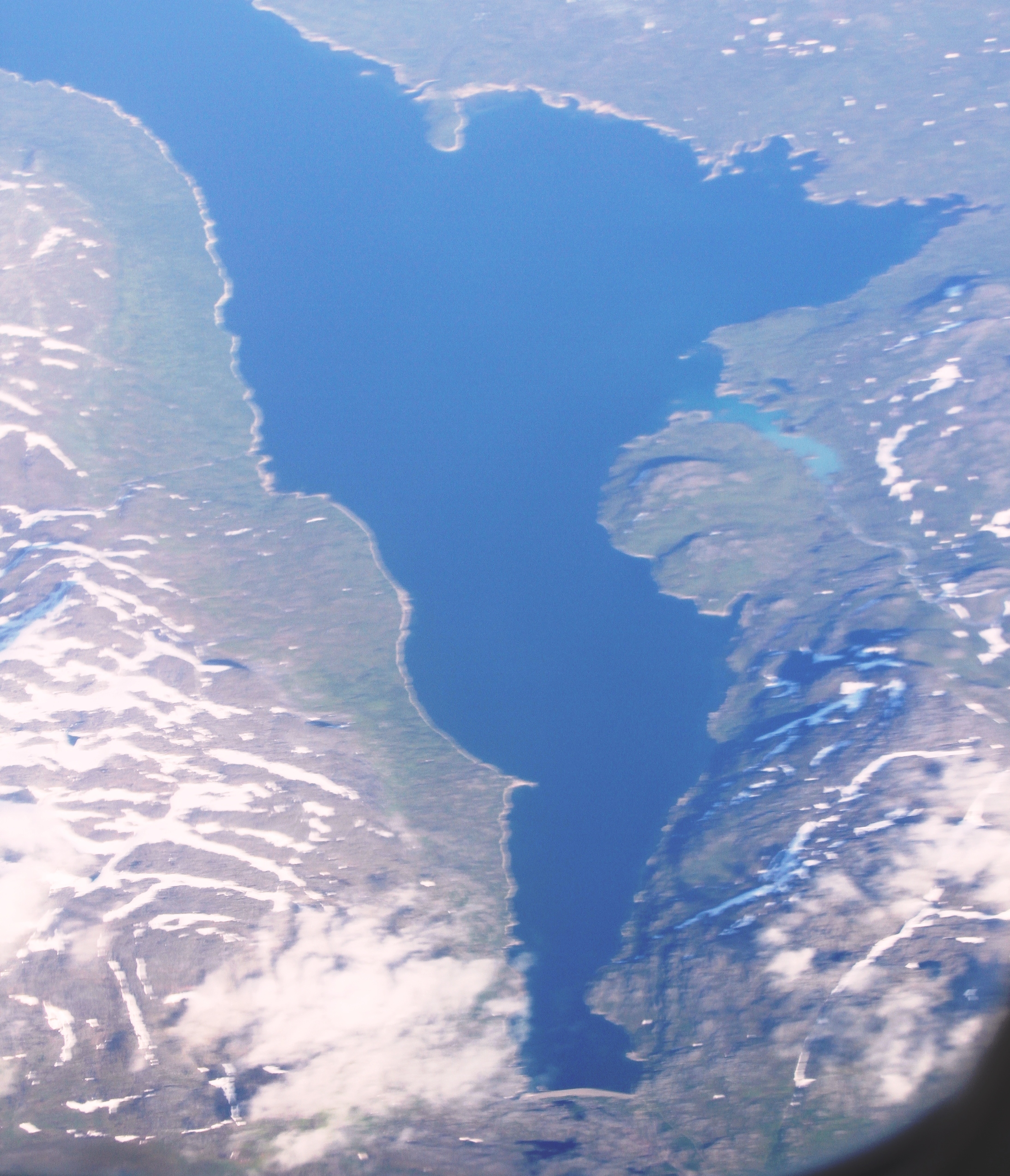 Aerial view from the west towards east, over eastern Hemnes municipality, direction towards Sweden (Västerbotten Län).